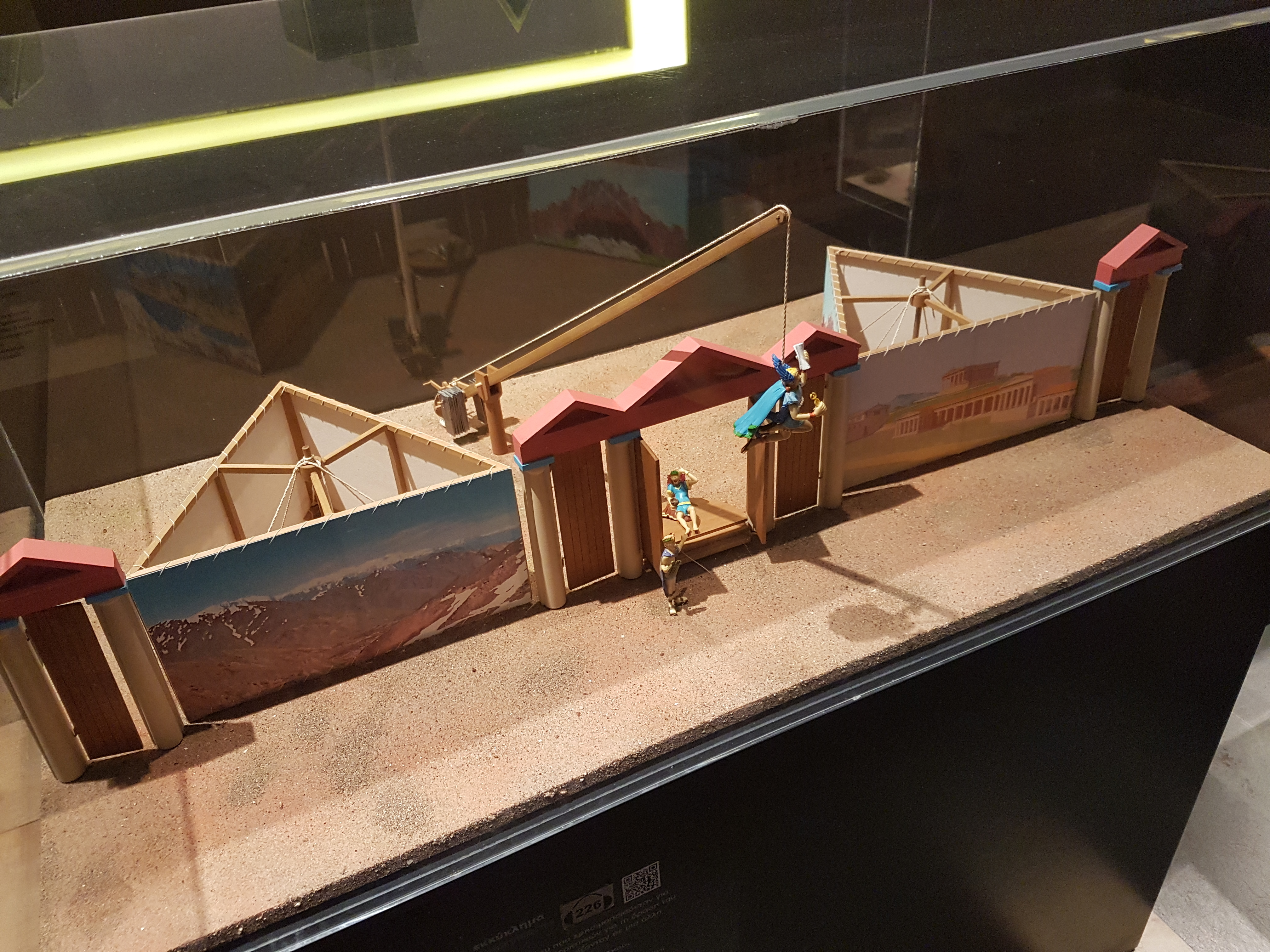 Periaktos or ekkyklema, 5th century BC (model). The device was being used during theatre plays for the purposes of making a dramatic entrance (usually a deity hence Ἐκ Μηχανῆς Θεός or Deus Ex Machina in Latin). Thessaloniki Technology Museum